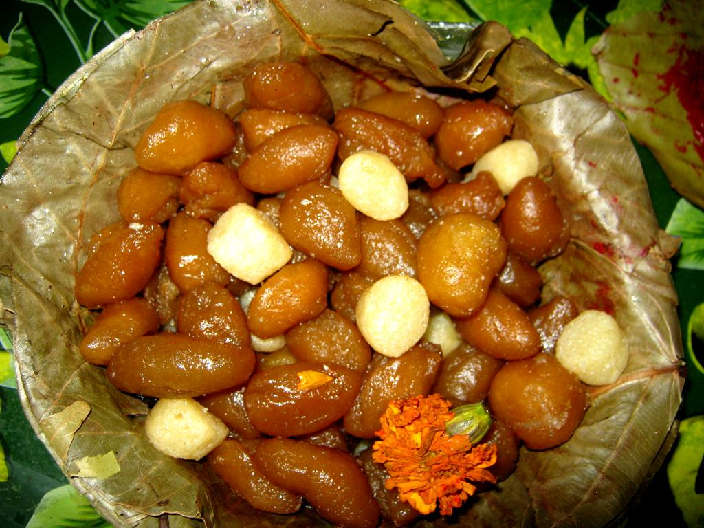 Cuttack Chandi Temple, Cuttack, Odisha.